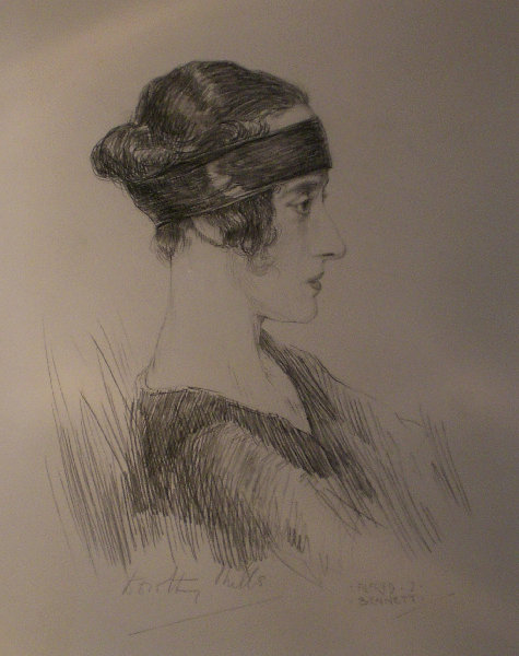 drawing